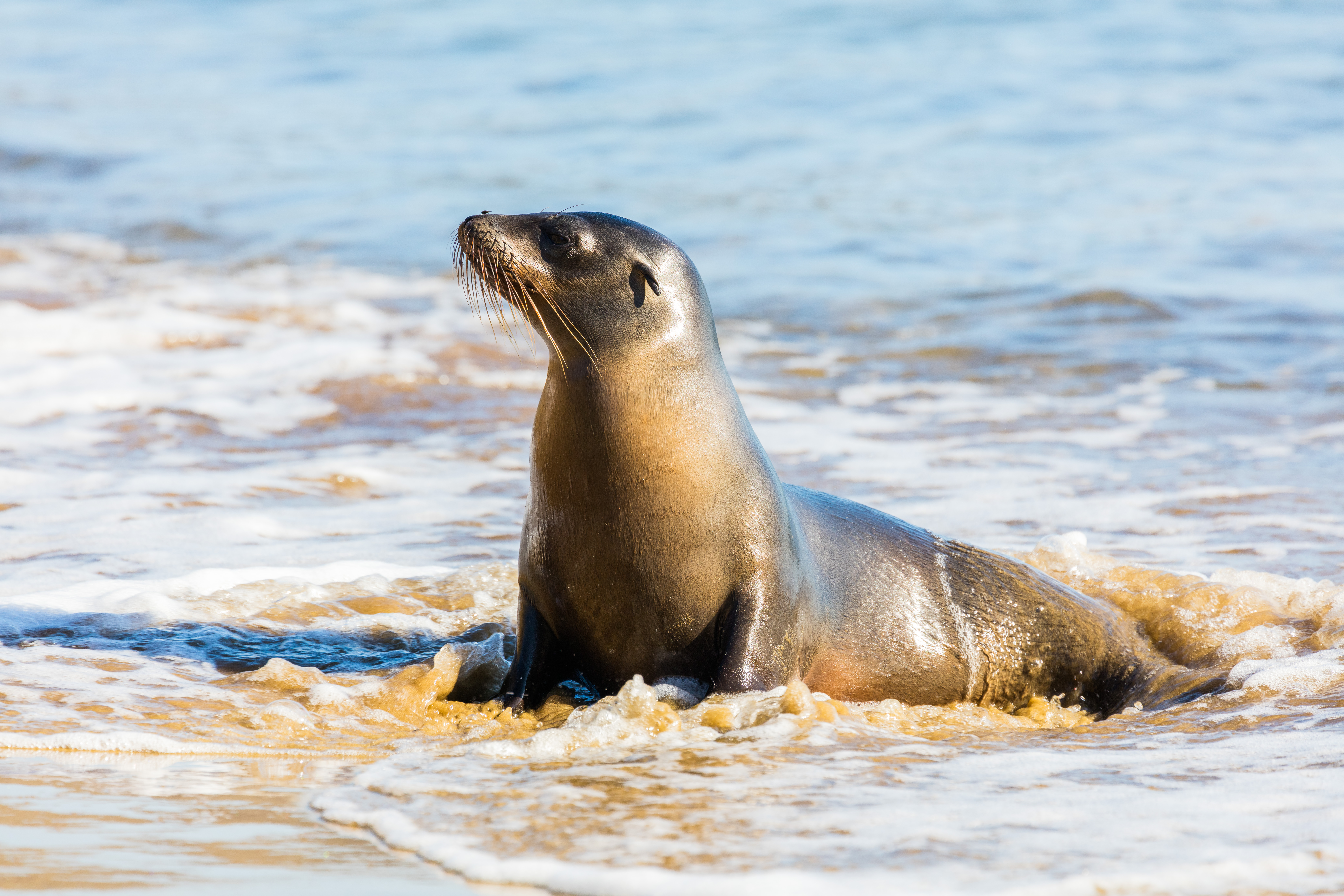 Close-up of a Galápagos sea lion (Zalophus californianus wollebaeki) in Punta Pitt, San Cristóbal Island, Galápagos Islands, Ecuador.